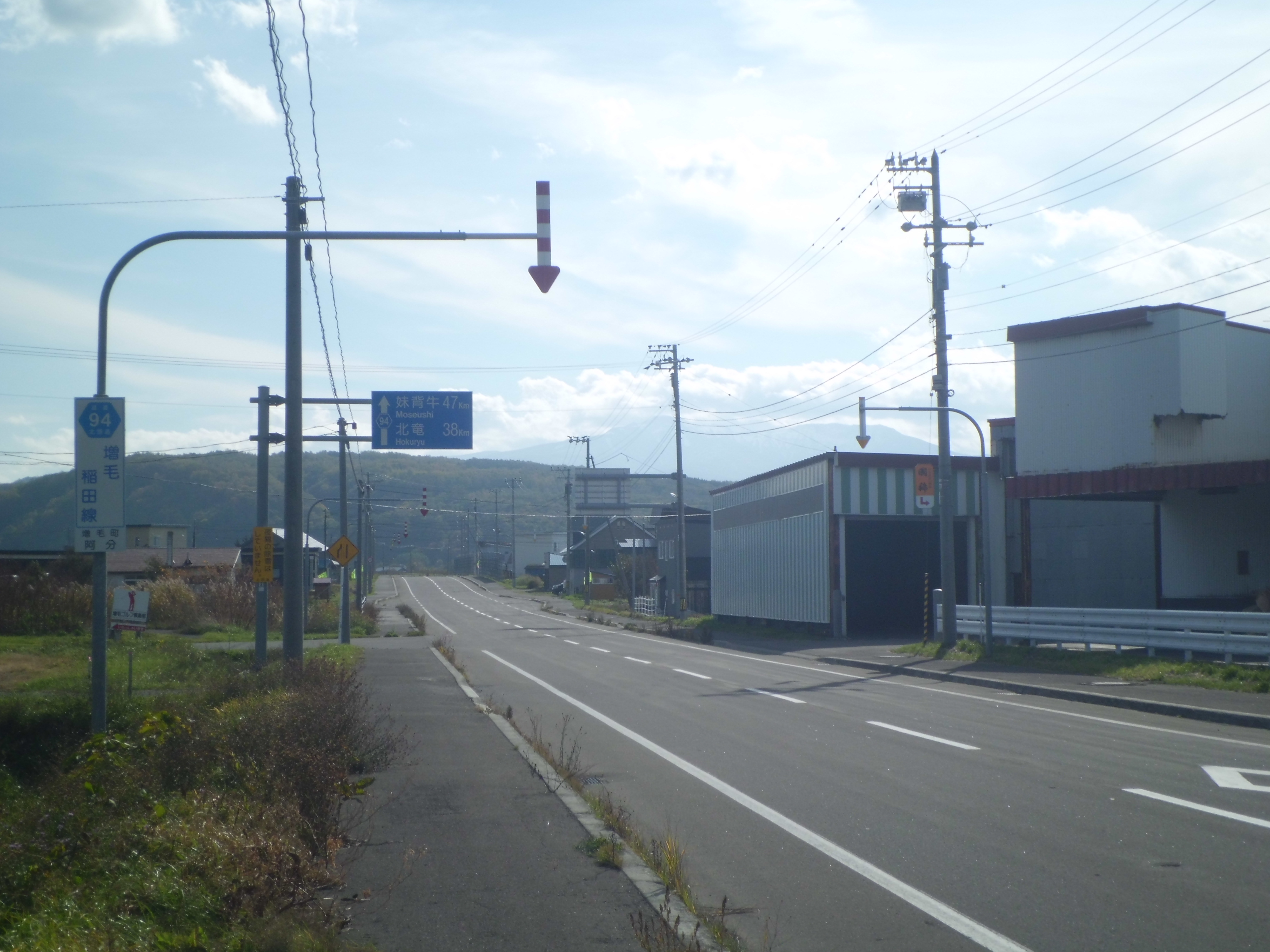 Hokkaido Prefectural Road 94 Mashike-Inada line at Afun